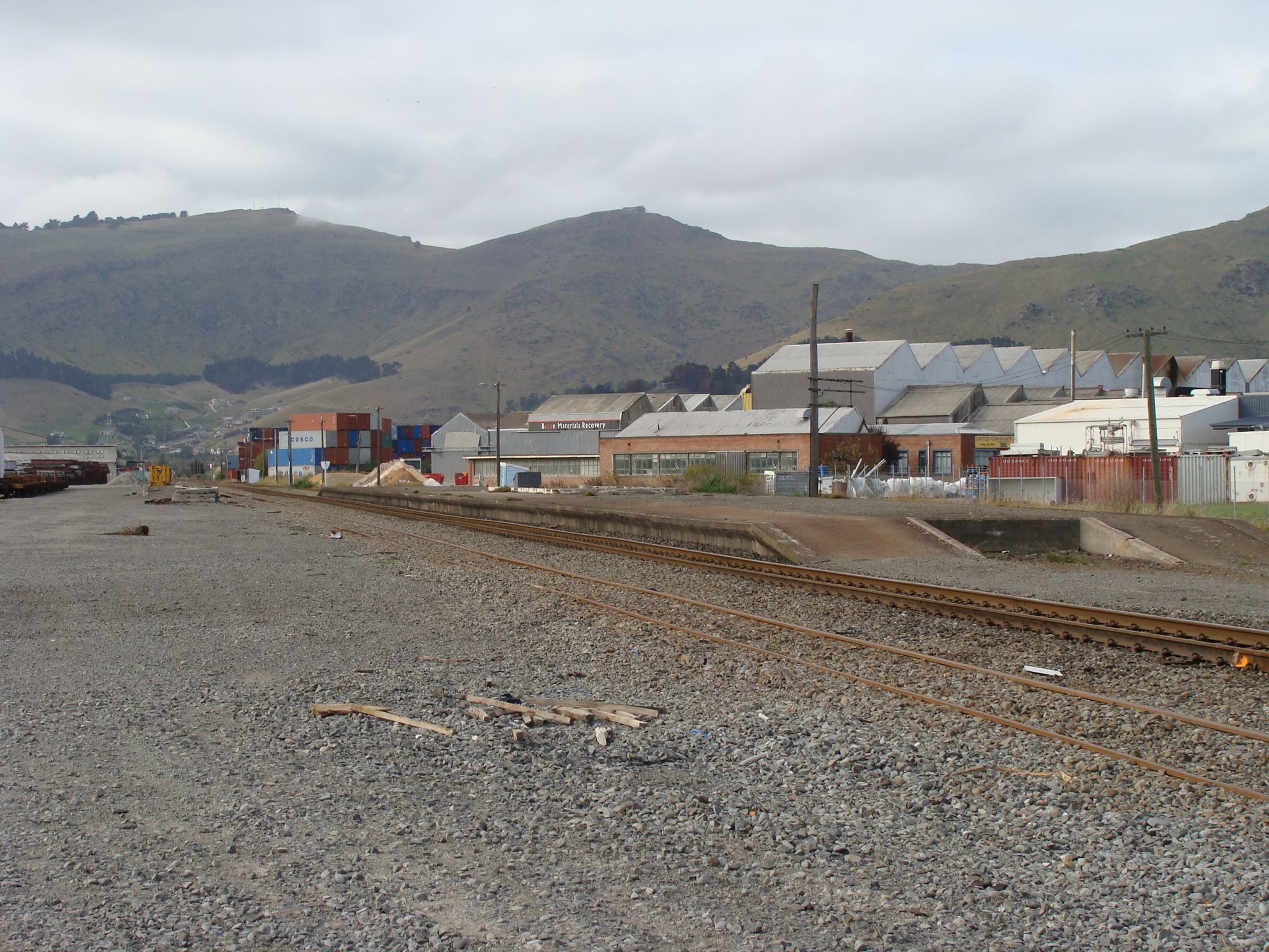 Woolston Railway Station platform. Christchurch, New Zealand